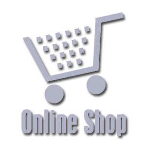 Online Shop buy sell online